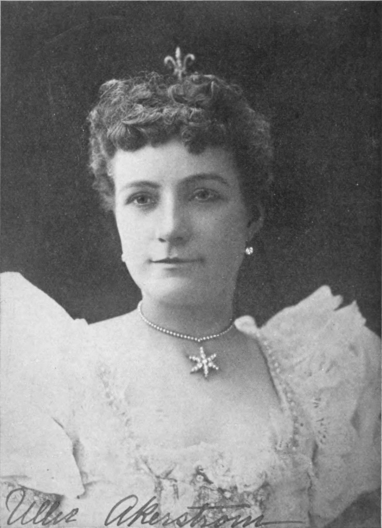 Ullie Akerstrom, from a 1901 publication. A young white woman wearing her curly hair in an updo, wearing a dress with puffy sleeves and a star-shaped pendant at her neck.